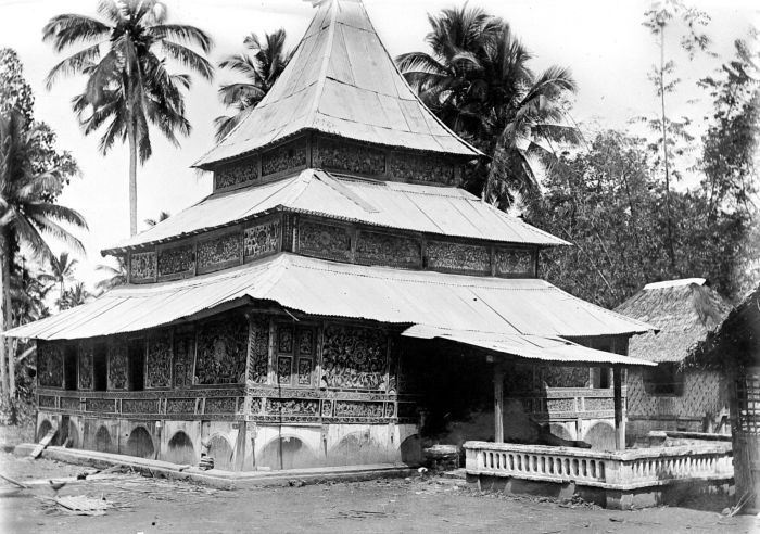 Mosque